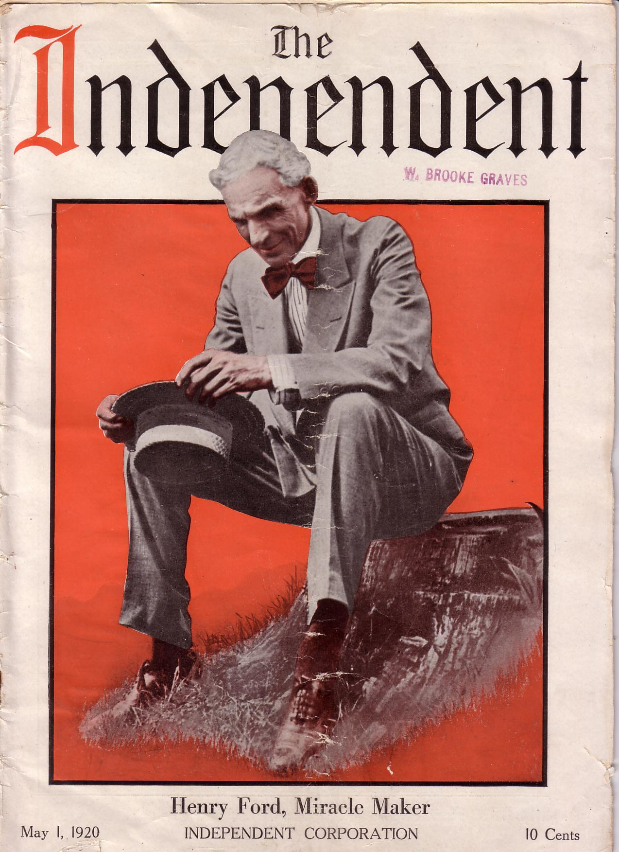 Henry Ford miracle maker, independent corporation magazine cover.